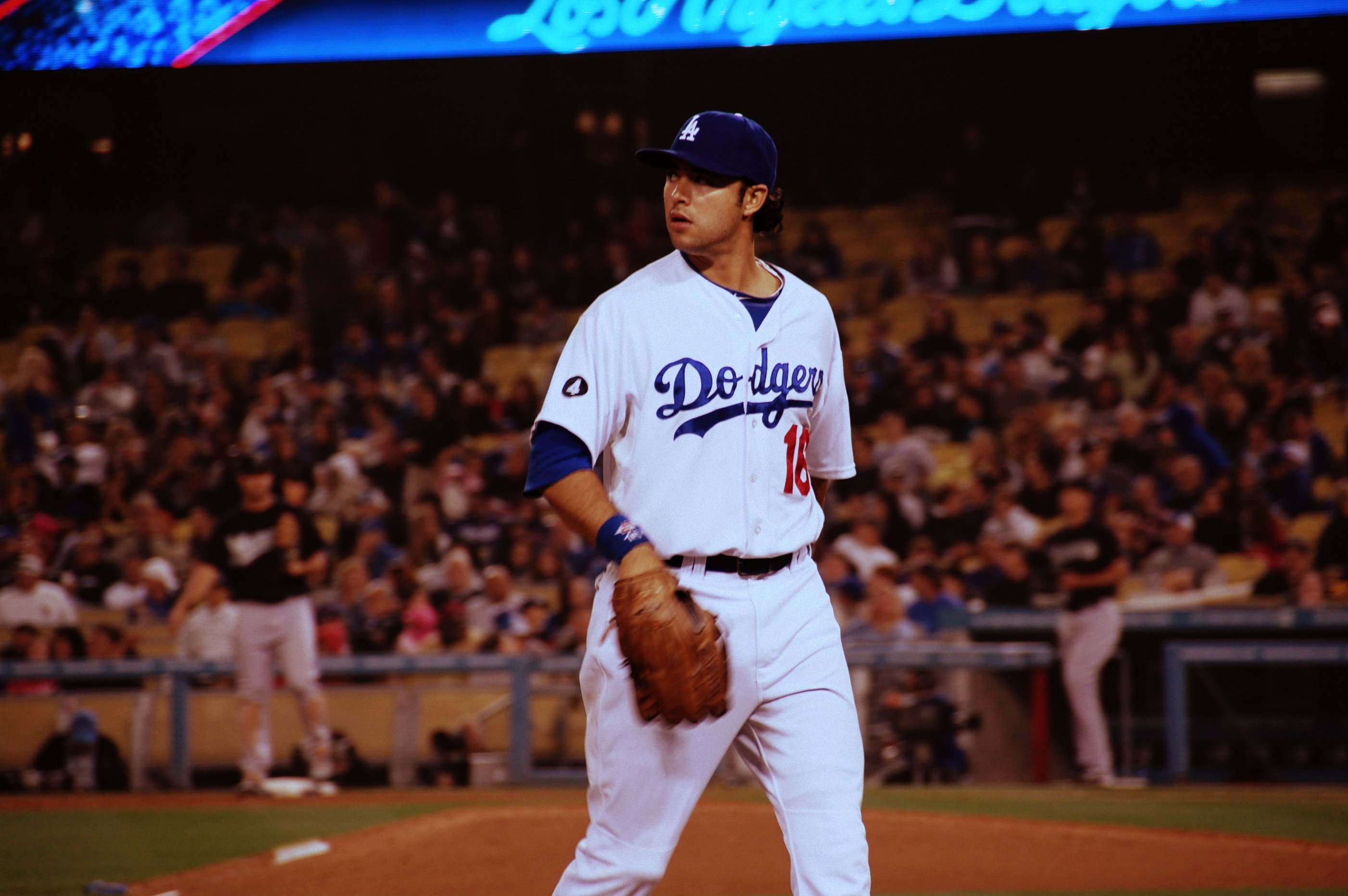 Andre Ethier